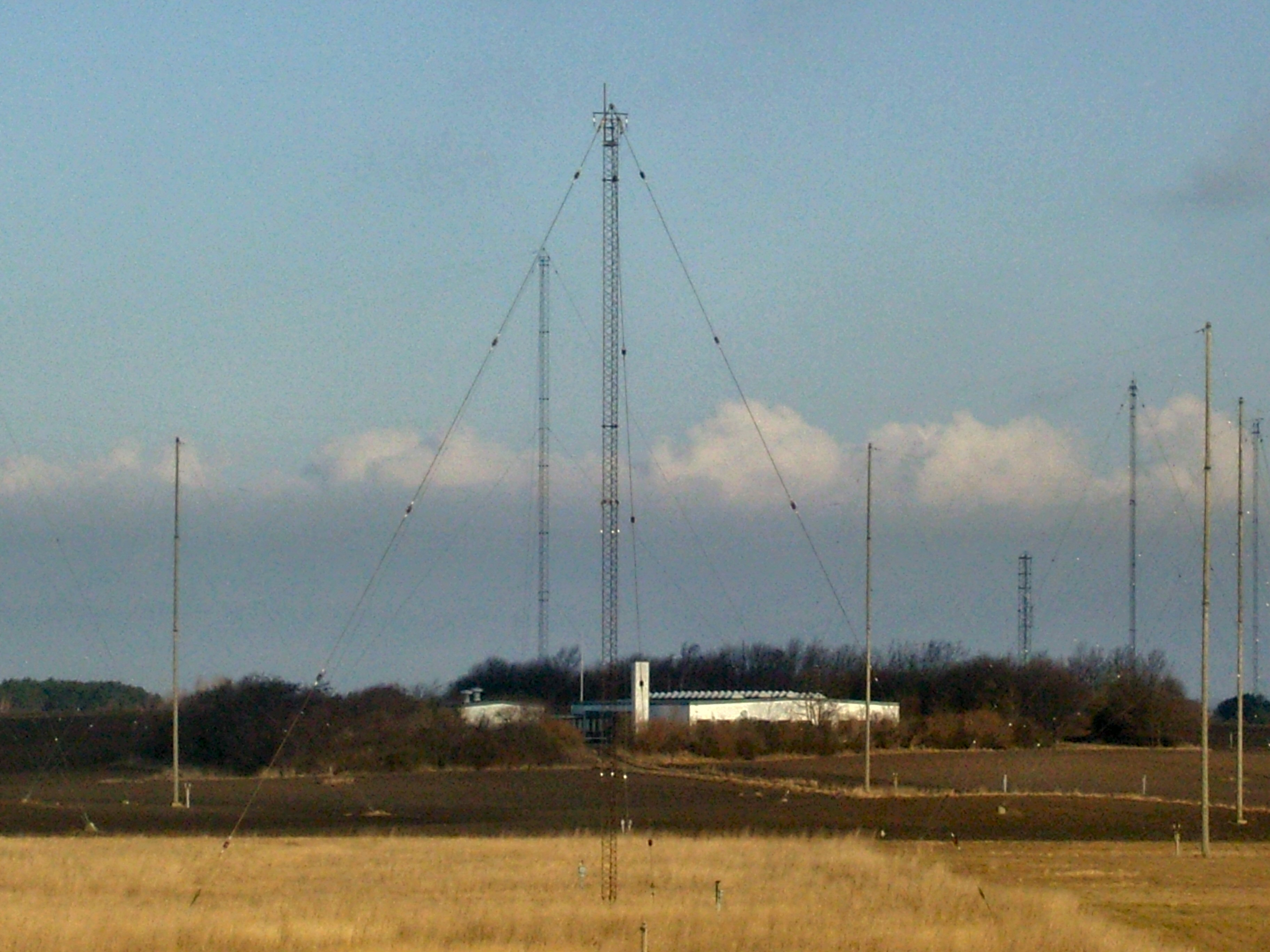 Reersø Radio recieverstation